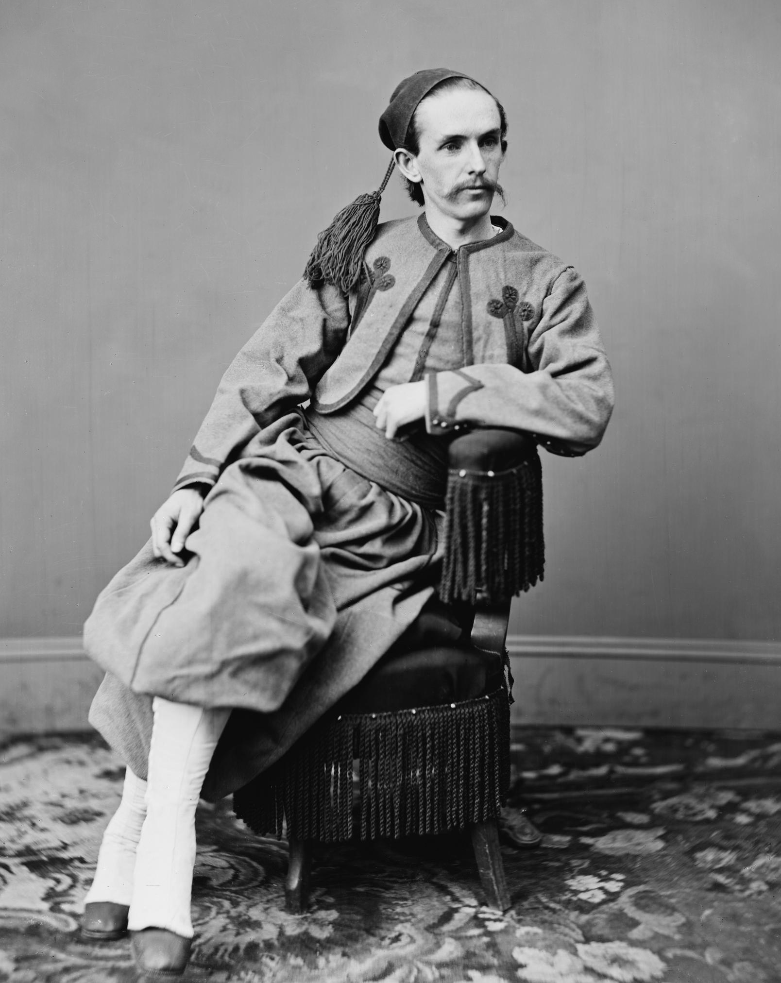 John Surratt, son of Mary Surratt, in Zouave uniform. Surratt conspired with John Wilkes Booth to kidnap Lincoln in 1865.